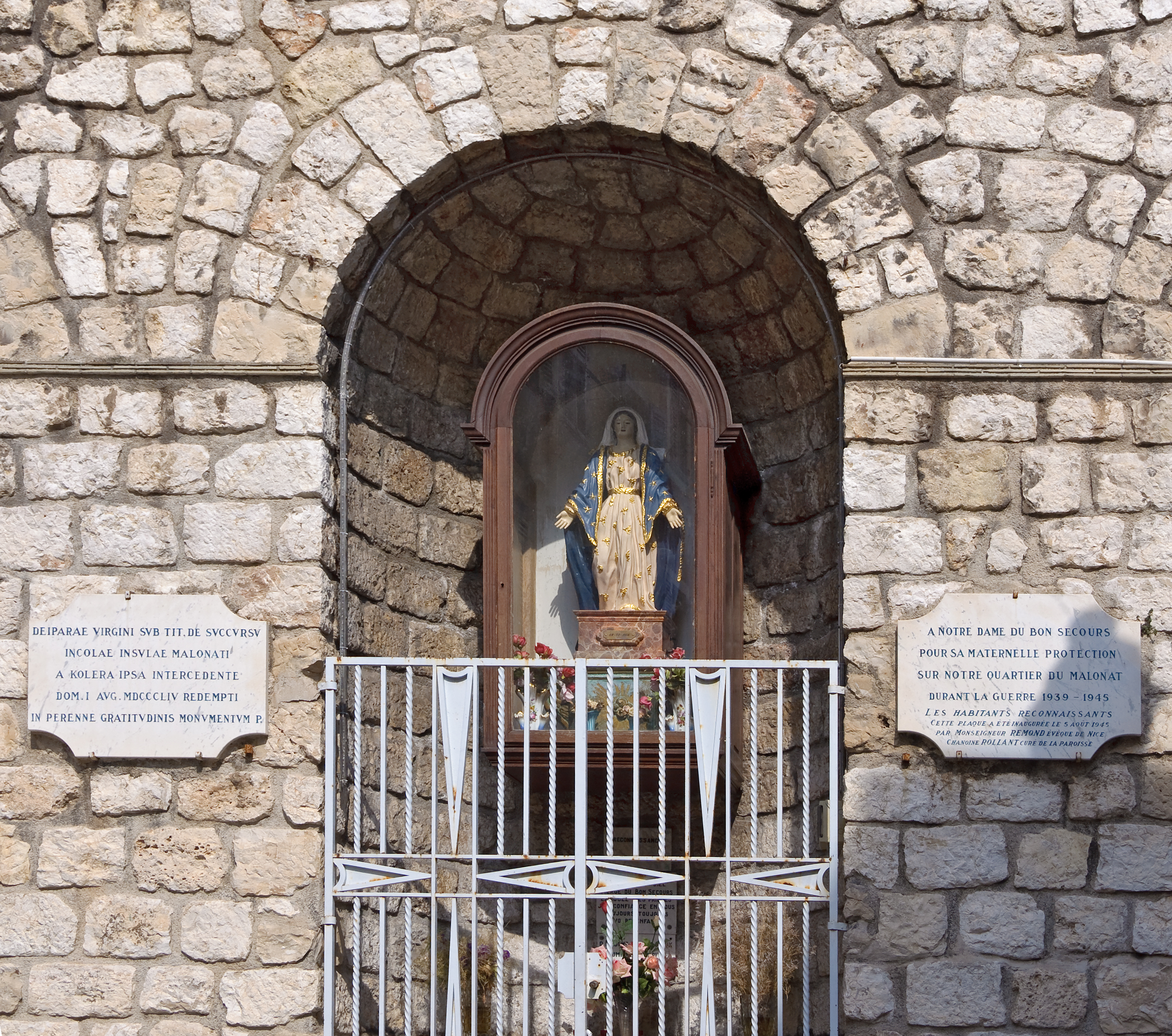 Statue of Our Lady of Good Help, called 'Notre Dame du Malonat', in its oratory located in 'rue du Malonat', old town of Nice, French Riviera.